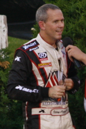 Interviewing Jerry Coons Jr. in victory lane after winning his heat race at Angell Park Speedway